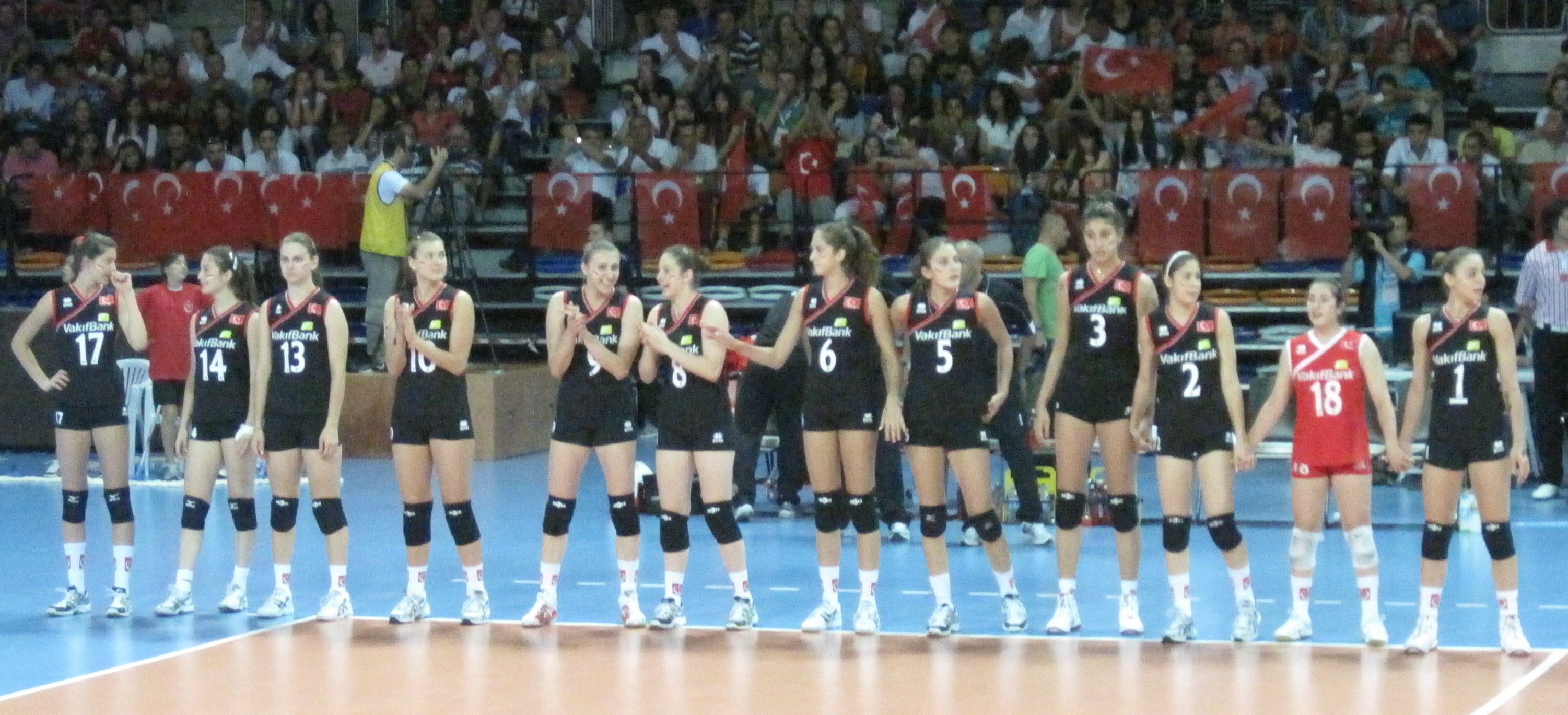 2011 World champions Turkey women's youth national volleyball team: 17-Nursevil Aydınlar, 14-Ecem Alıcı, 13-Sabriye Gönülkırmaz, 10-Ece Hocaoğlu, 9-Aslı Kalaç, 8-Buket Yılmaz, 6-Ceylan Arısan, 5-Şeyma Ercan, 3-Kübra Akman, 2-Çağla Akın, 18-Dilara Bağcı, 1-Damla Çakıroğlu.